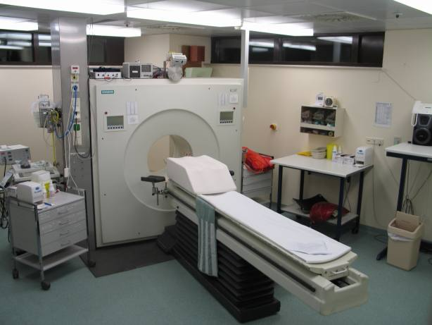 This image shows a picture taken from a typical PET facility equipped with an ECAT Exact HR+ PET scanner. PET scanners such as this are steadily being replaced by systems that combine both PET and CT scanners into a single PET/CT imaging device.